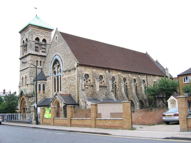 Celestial Church of Christ, Glengall Road, London SE15, seen from south-southwest. Completed in 1865 as St Andrew's parish church. Declared redundant in 1978.